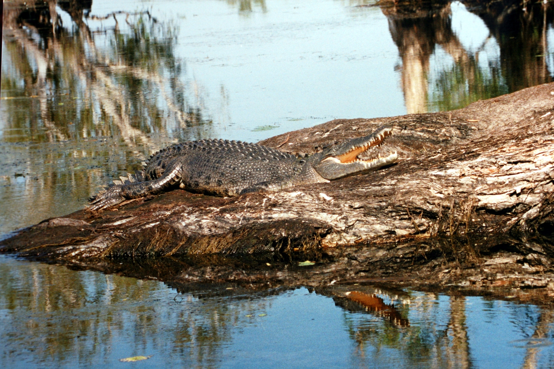 Salt water crocodile in Kakadu National Park, the Northern Territory of Australia The picture was taken by Brocken Inaglory